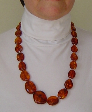 White turtleneck shirt and amber necklace